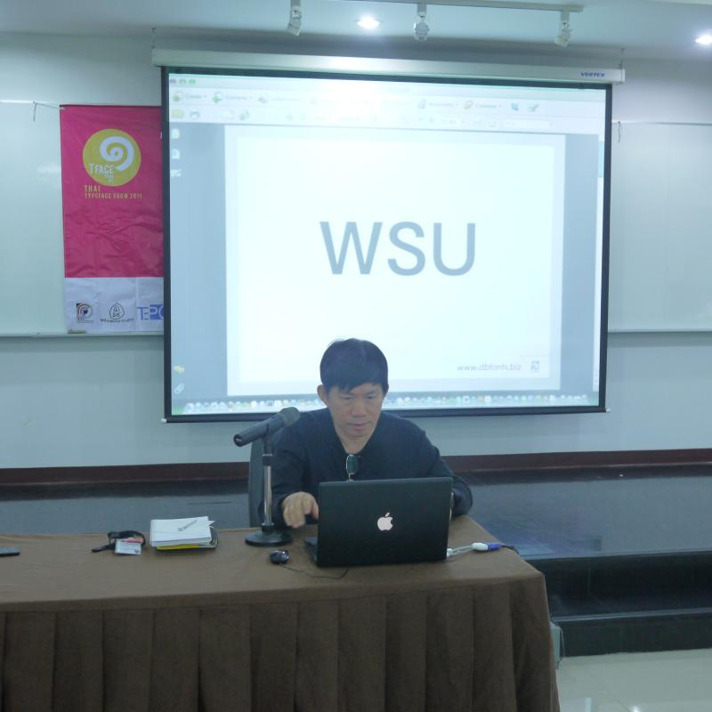 Parinya Rojarayanond giving a lecture at King Mongkut University of Technology Thonburi, part of the Thai Typeface Competition 2011